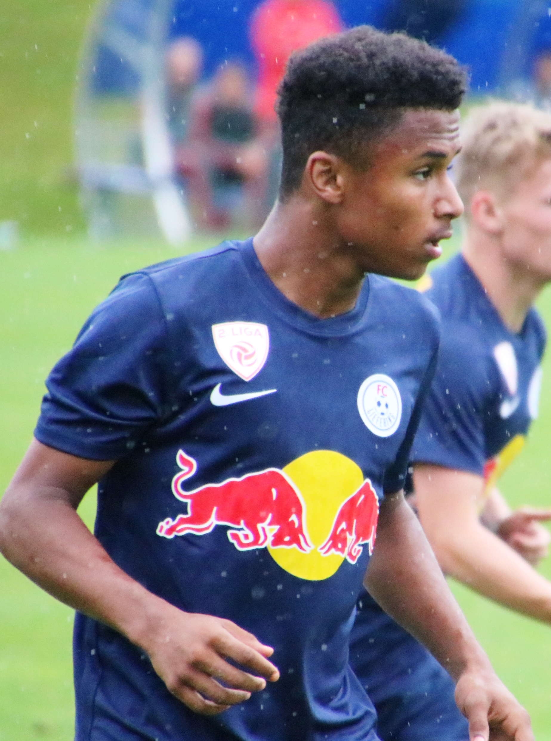 preseasonnmatch 2018/19